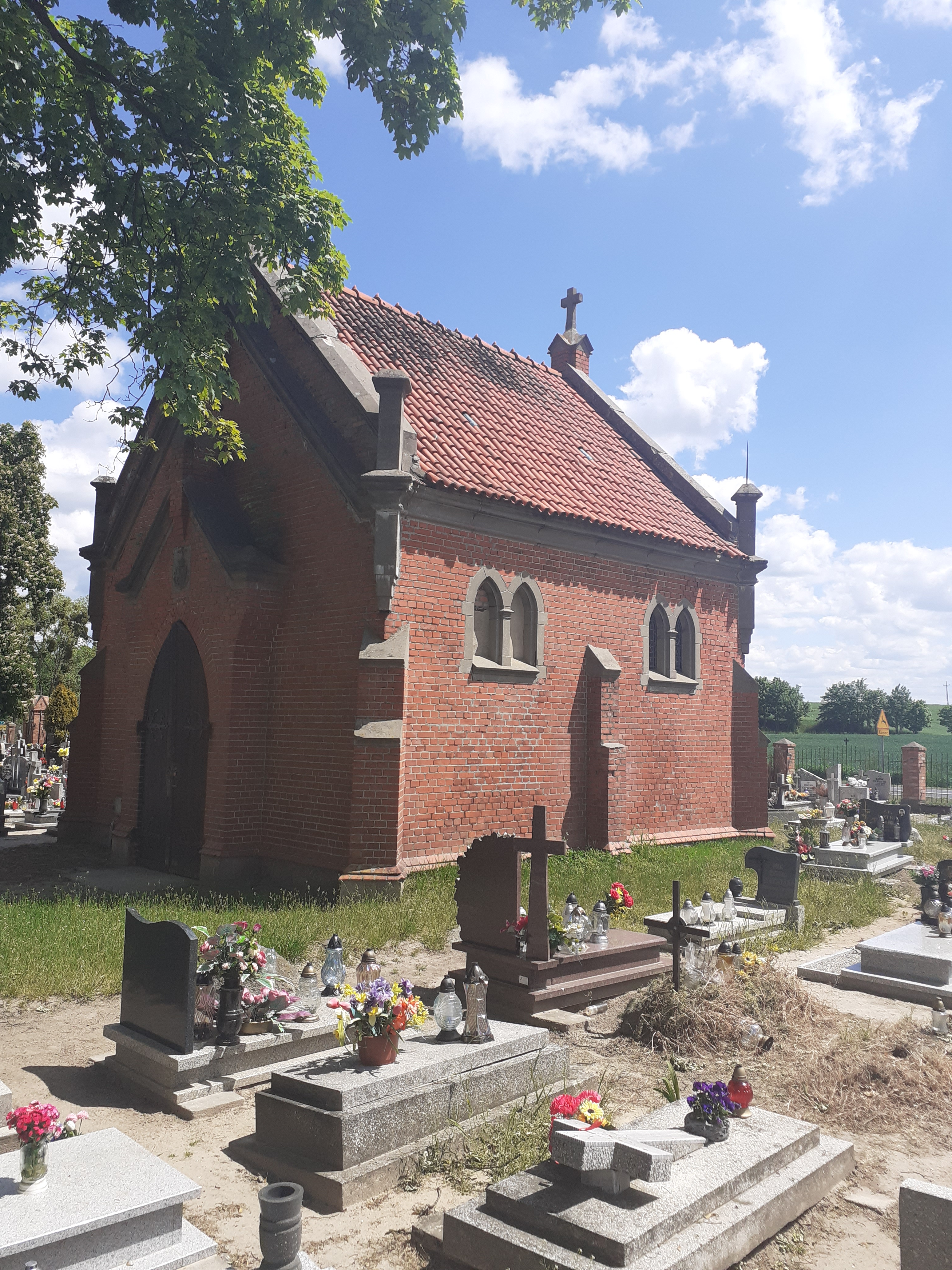 Zabytek w Wabczu